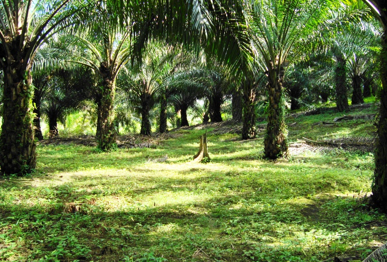 Traditional oil palm plantations that are managed and owned by ordinary people in Kampar regency, Riau.